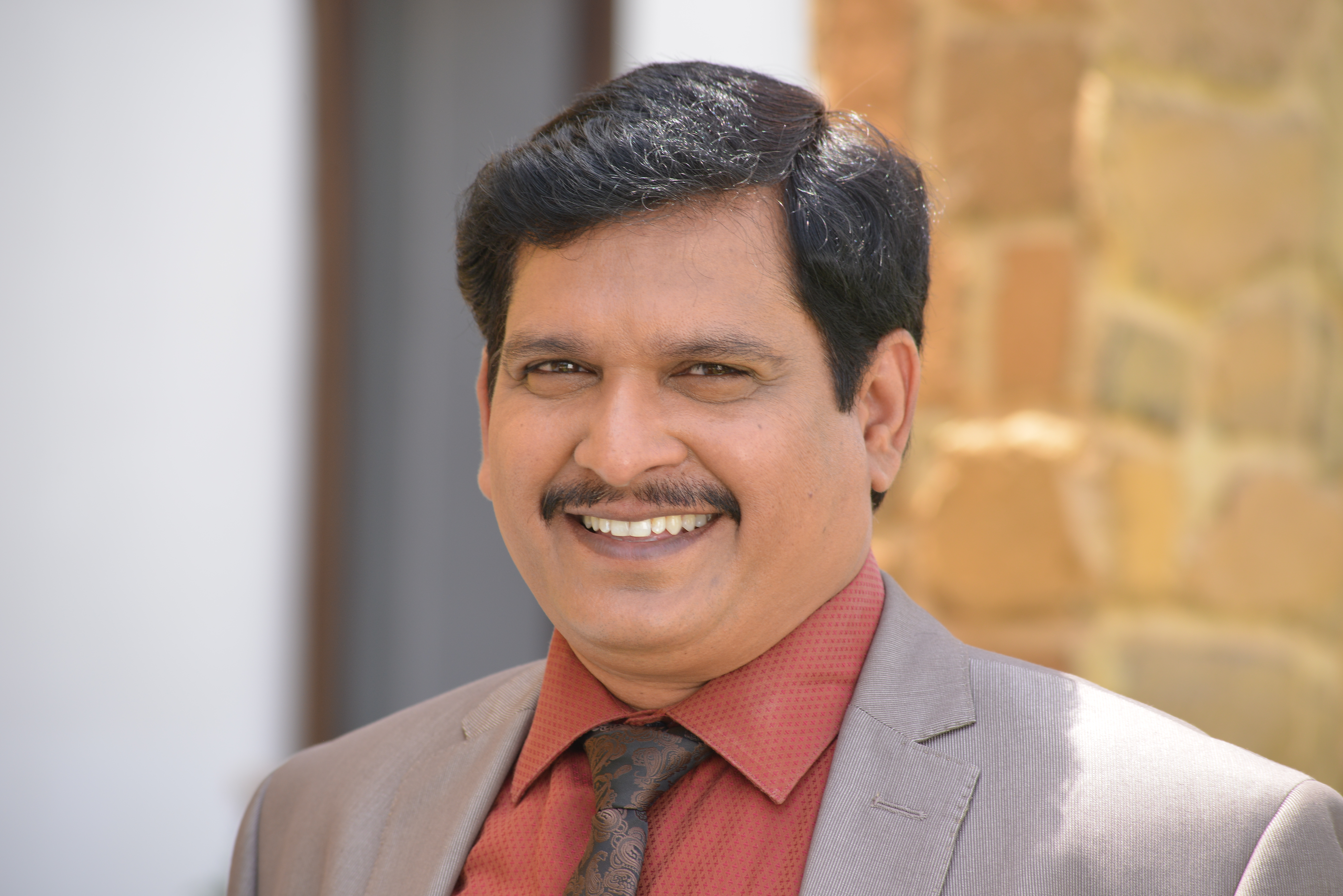 Profile photo